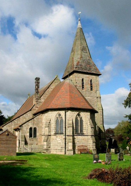 St John the Baptist parish church, Kingstone, Staffordshire, seen from the southeast